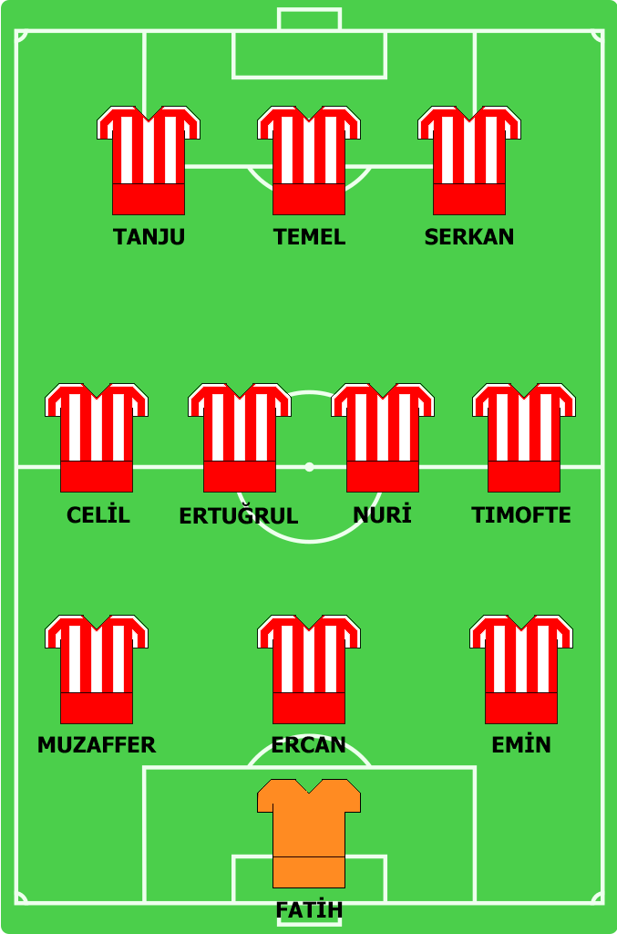 The best first XI of Samsunspor's history choosing by Samsunspor supporters.